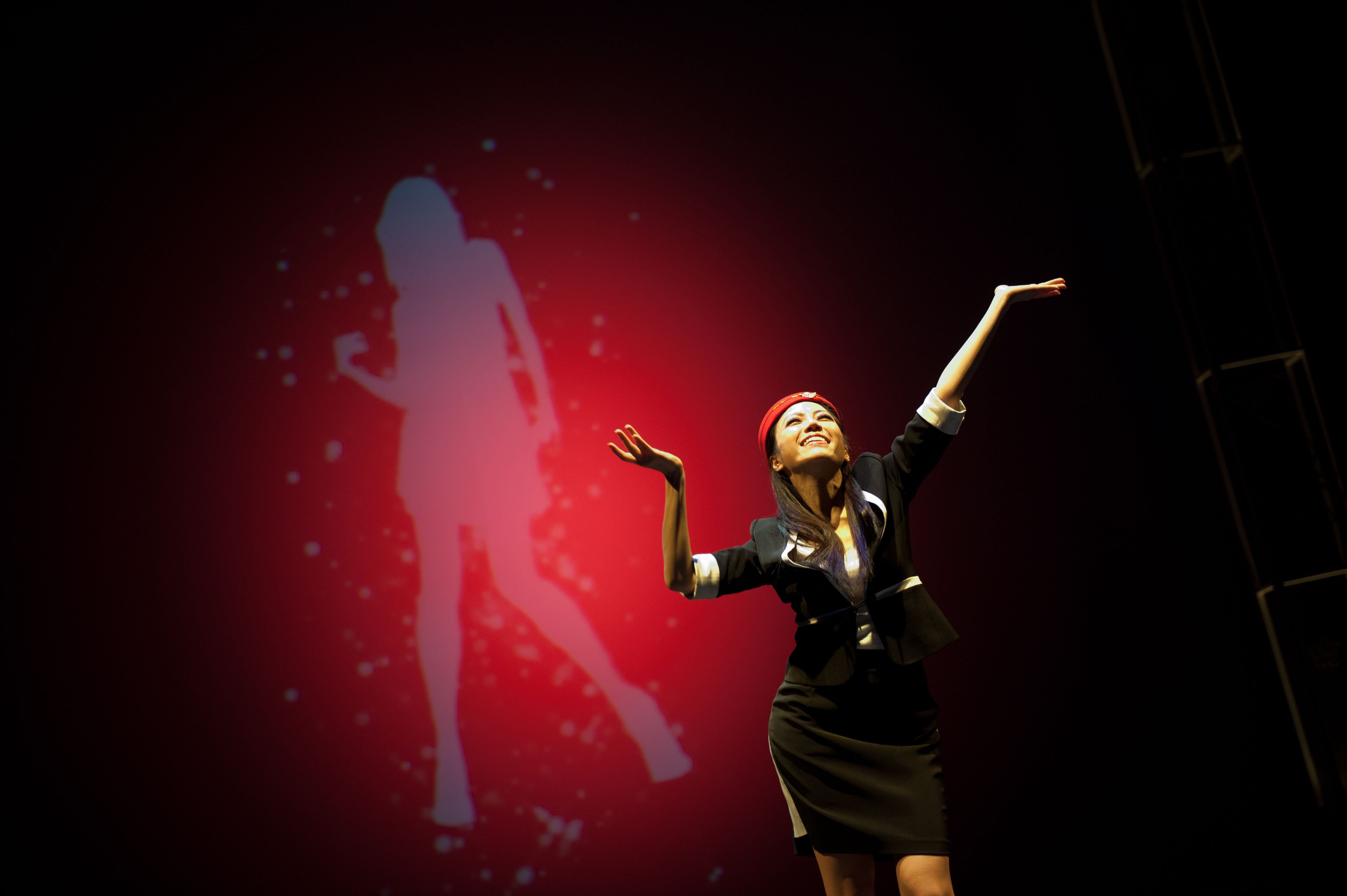 Theatre piece : 29+1